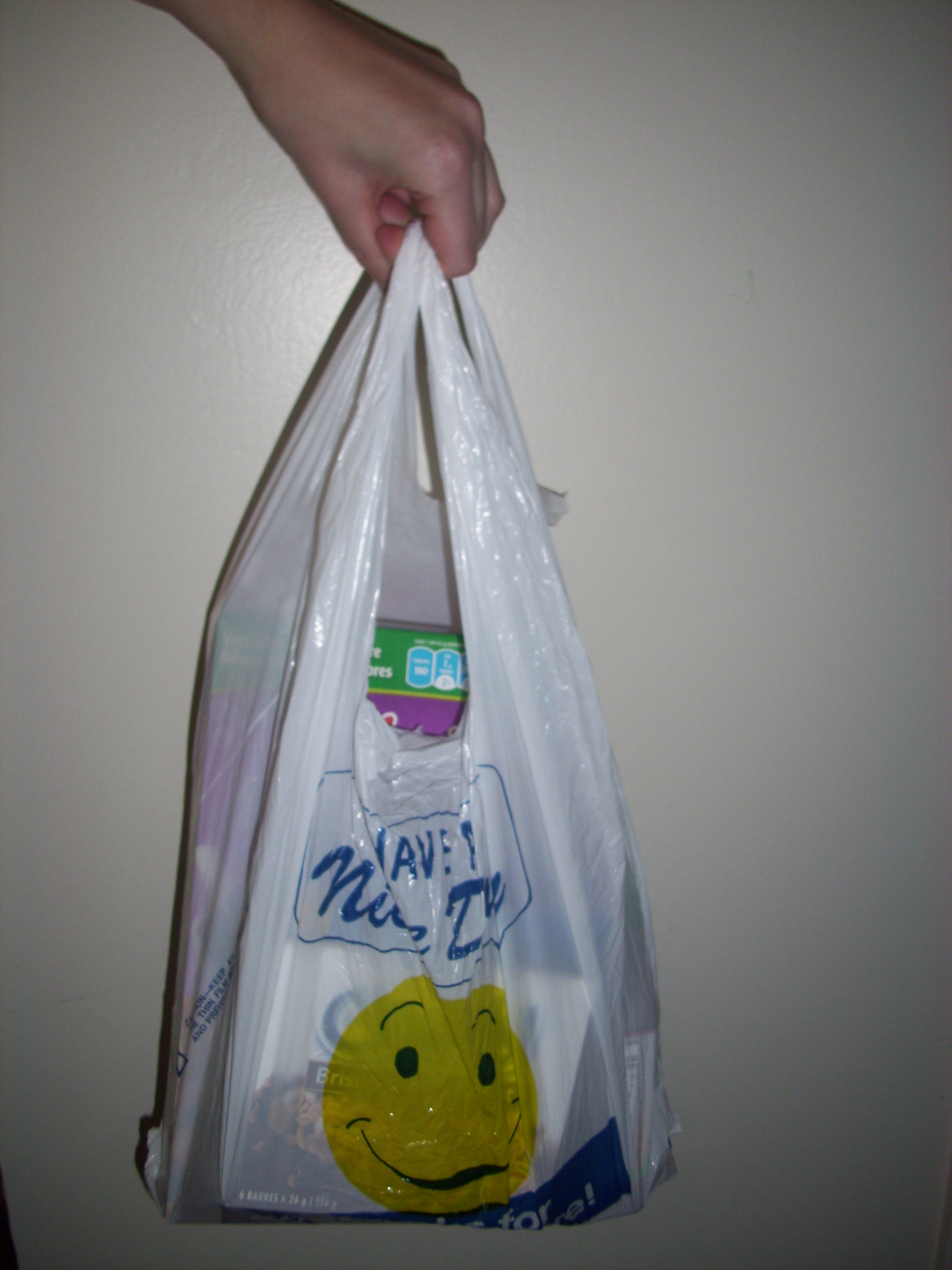 high cost of living